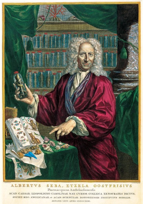 Portrait of Albertus Seba, a 18th-century Dutch pharmacist, collector of zoological and other natural subjects and editor of a illustrated work of reference about his collection.